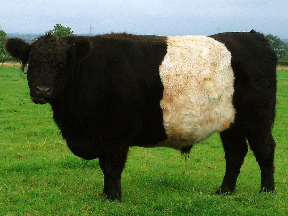 A Belted Galloway at Gretna Green.